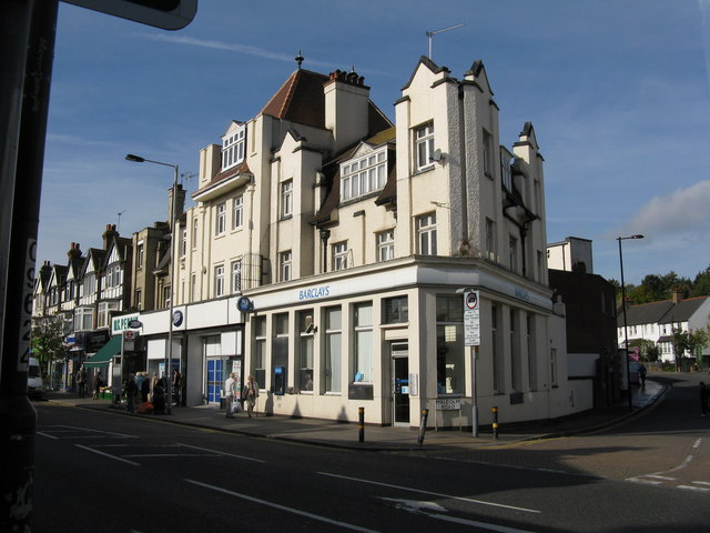 Barclay's Bank, Coulsdon At the corner of Malcolm Road and Brighton Road.